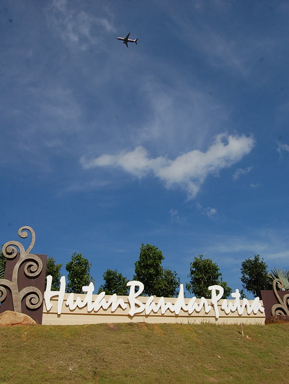 Hutan Bandar Putra is a new town forest in the south of Kulai city centre near by Senai International Airport. Developed and managed y Kulai municipal council.